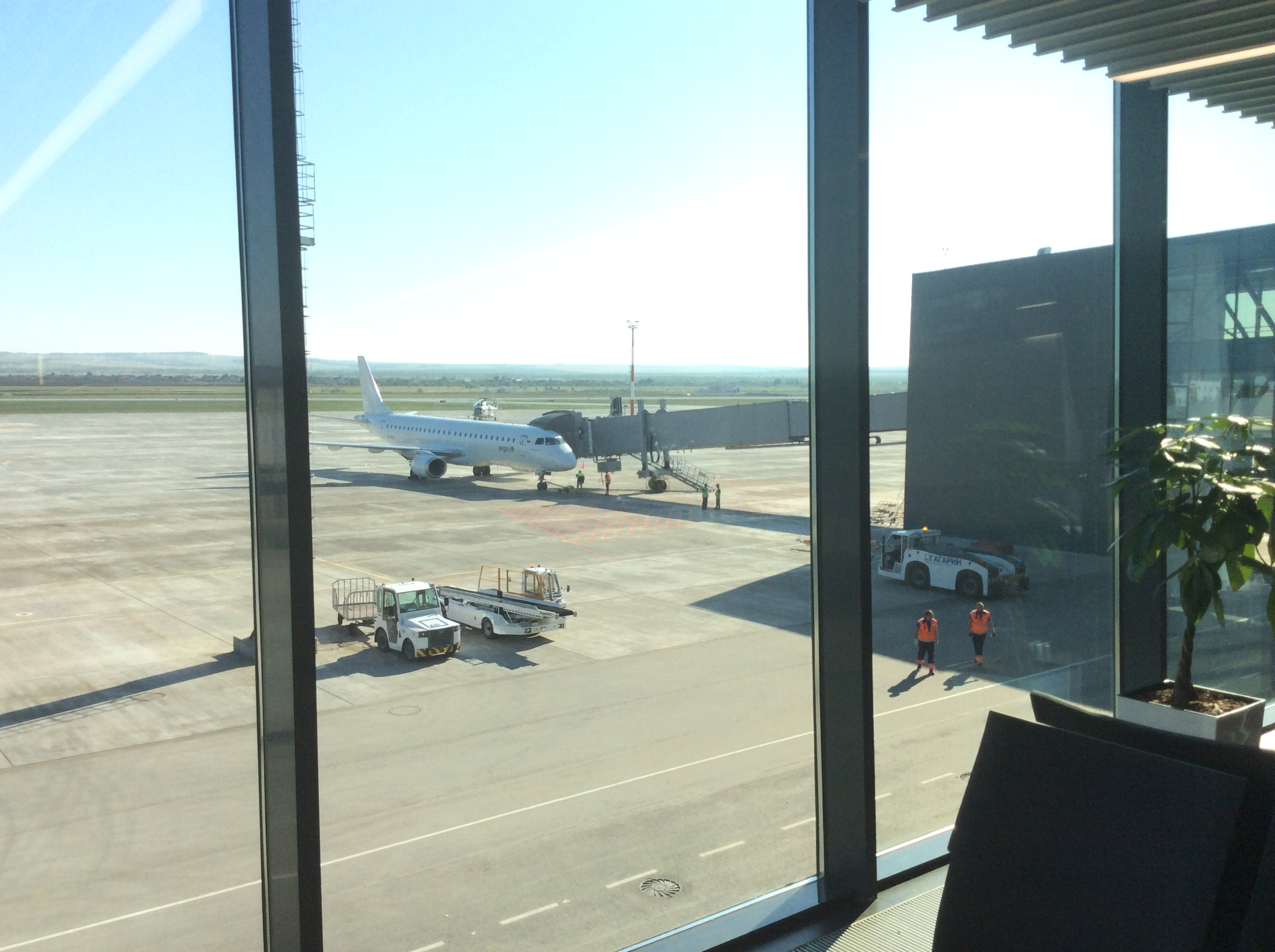 Saratov Gagarin Airport 2 days after opening.